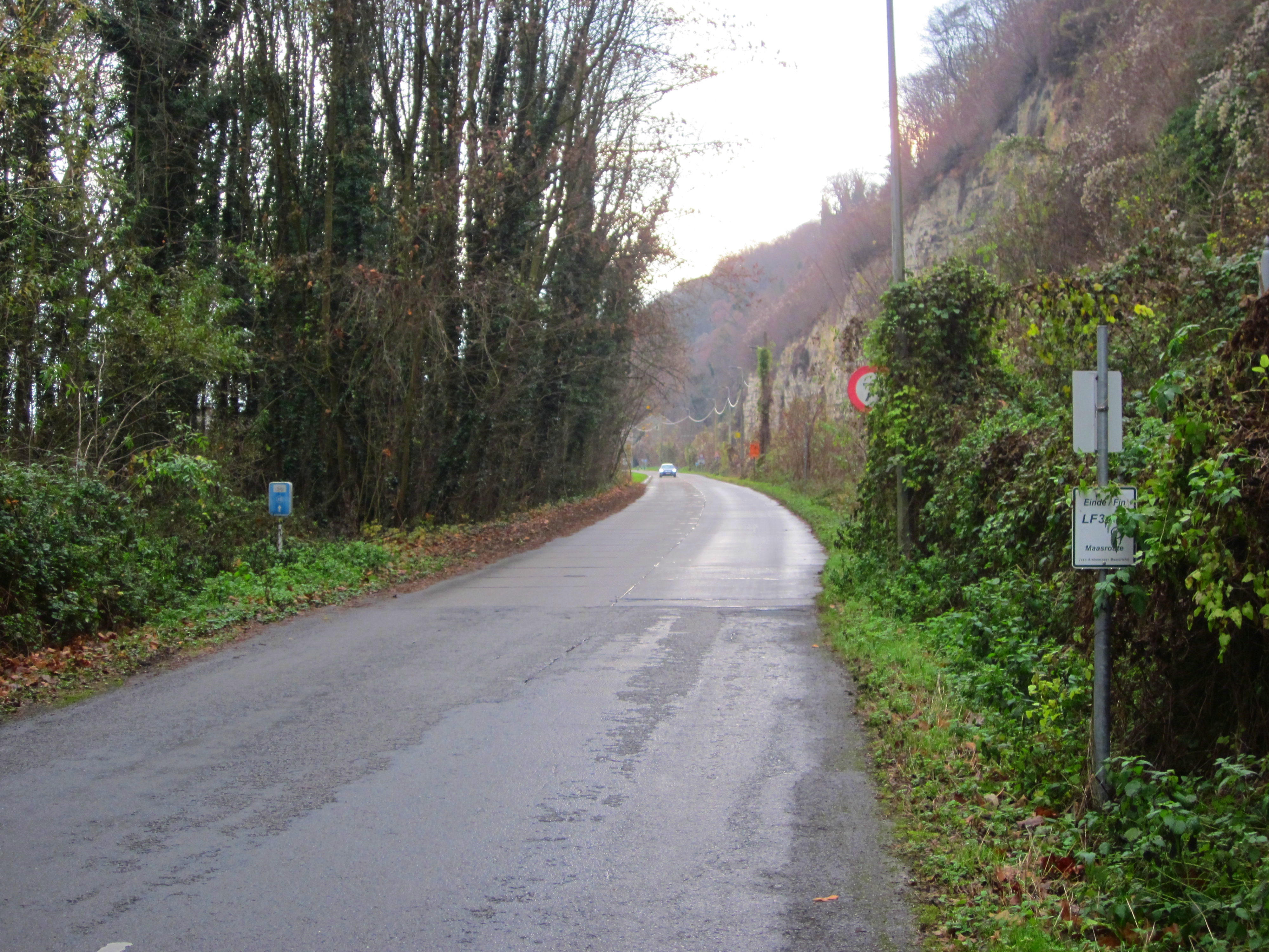 Border between Maastricht, Netherlands (image foreground) and Petit Lanaye (a district of Visé), Belgium (image background).